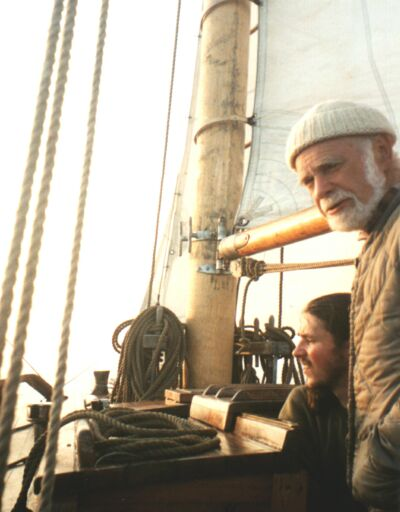 Darius Bogucki, sailor, writer, naval architect